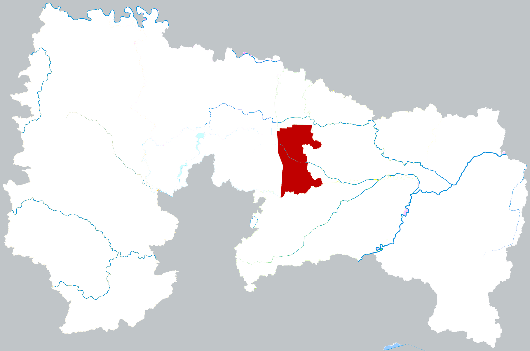 Location of Wenfeng district in Anyang city, China